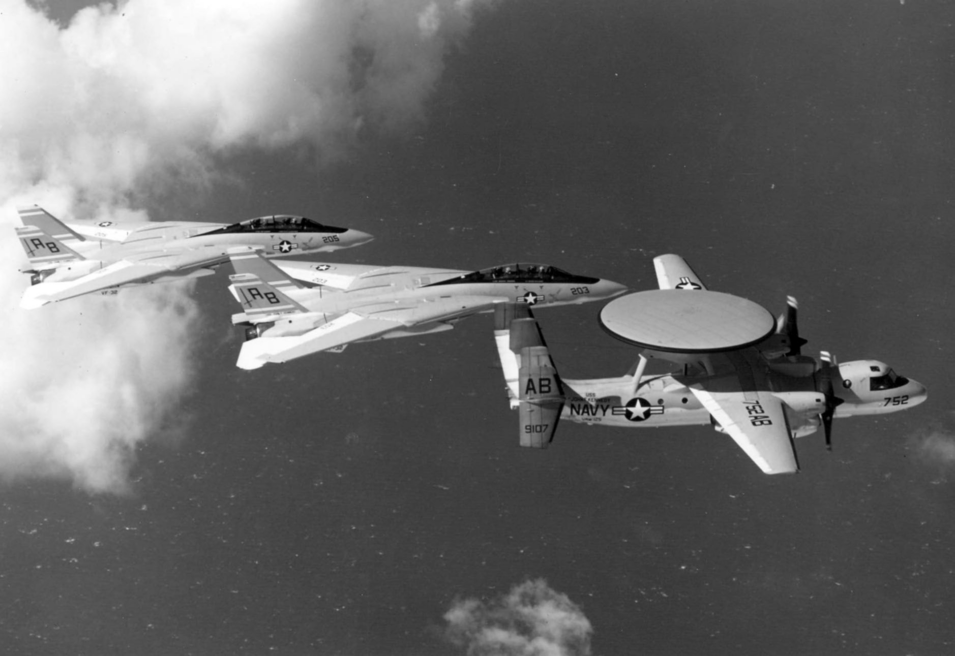 Two U.S. Navy Grumman F-14A-75-GR Tomcat (BuNo 159013, 159016) from Fighter Squadron 32 (VF-32) "Swordsmen" fly in formation with a Grumman E-2C Hawkeye (BuNo 159107) from Carrier Airborne Early Warning Squadron 125 (VAW-125) "Torchbearers". Both squadrons were assigned to Carrier Air Wing 1 (CVW-1) aboard the aircraft carrier USS John F. Kennedy (CV-67) for a deployment to the Mediterranean Sea from 28 June 1975 to 27 January 1976. The F-14A 159013 was still in service with VF-32 on 4 January 1989, when its crew (Cdr. Leo Enright and Lt. Hermon Cook) shot down a Libyan Mikoyan-Gurevich MiG-23 over the Gulf of Sidra.